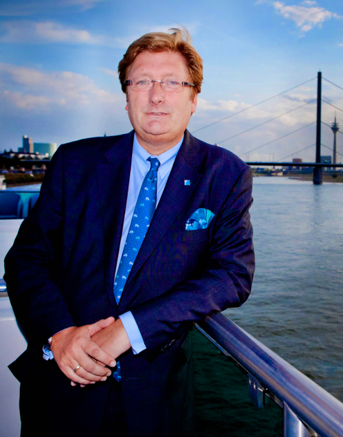 Dusseldorf's lord mayor Elbers at Rhine River, Dusseldorf